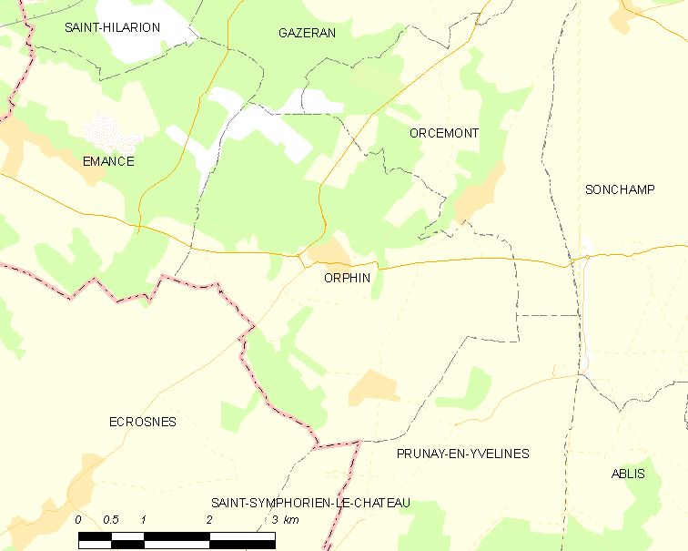 Map of French municipality Orphin